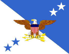 flag of the Chairman of the Joint Chiefs of Staff